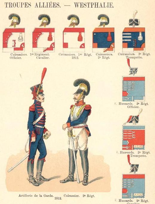 Plate of Westphalian cuirassiers 1809